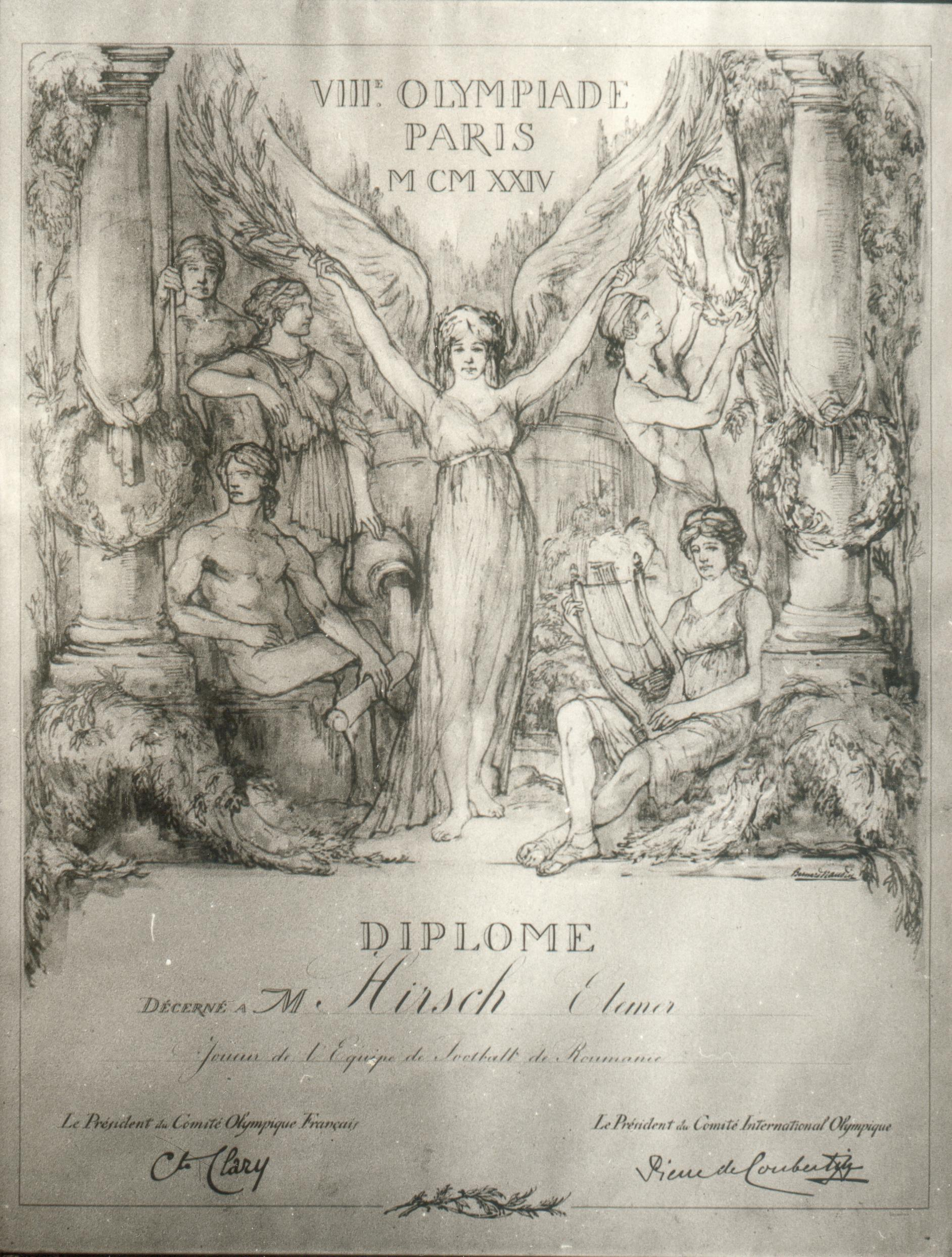 Elemér Hirsch was member of the Romanian Olymic Futball team.